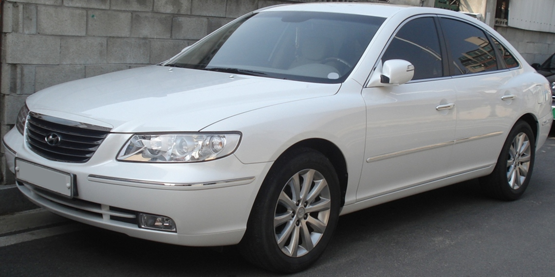 Hyundai Grandeur